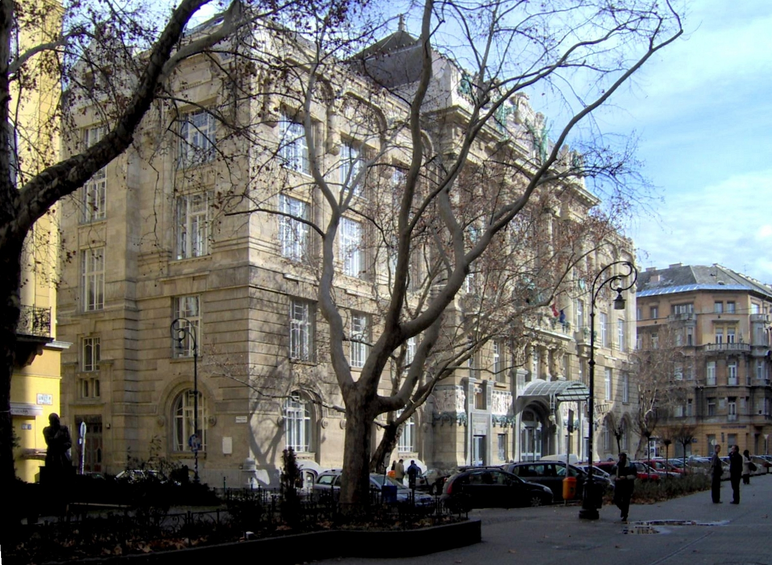 Franz Liszt Academy of Music in Budapest, Hungary